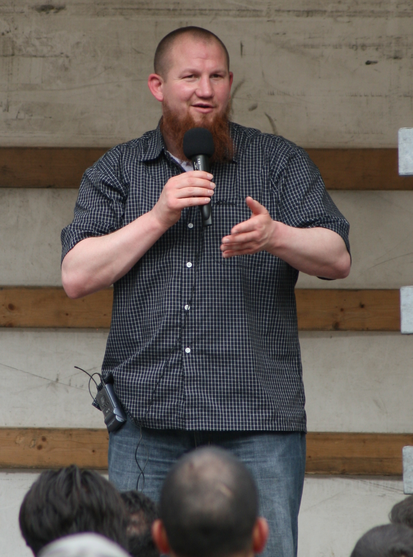 Pierre Vogel during a demonstration in Freiburg im Breisgau on June 7, 2014